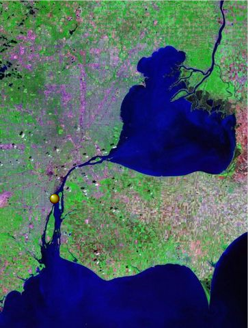 Modified version of the Lake st clair landsat image to illustrate location of Grassy Island